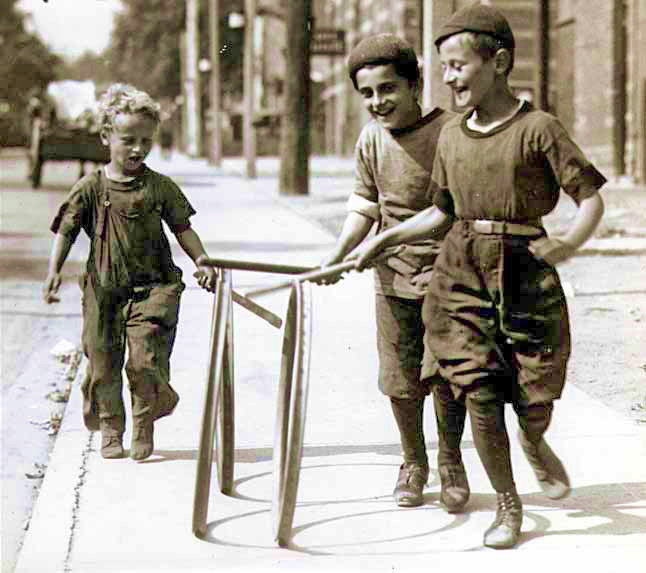 Boys playing with hoops on Chesnut Street, Toronto, Canada.